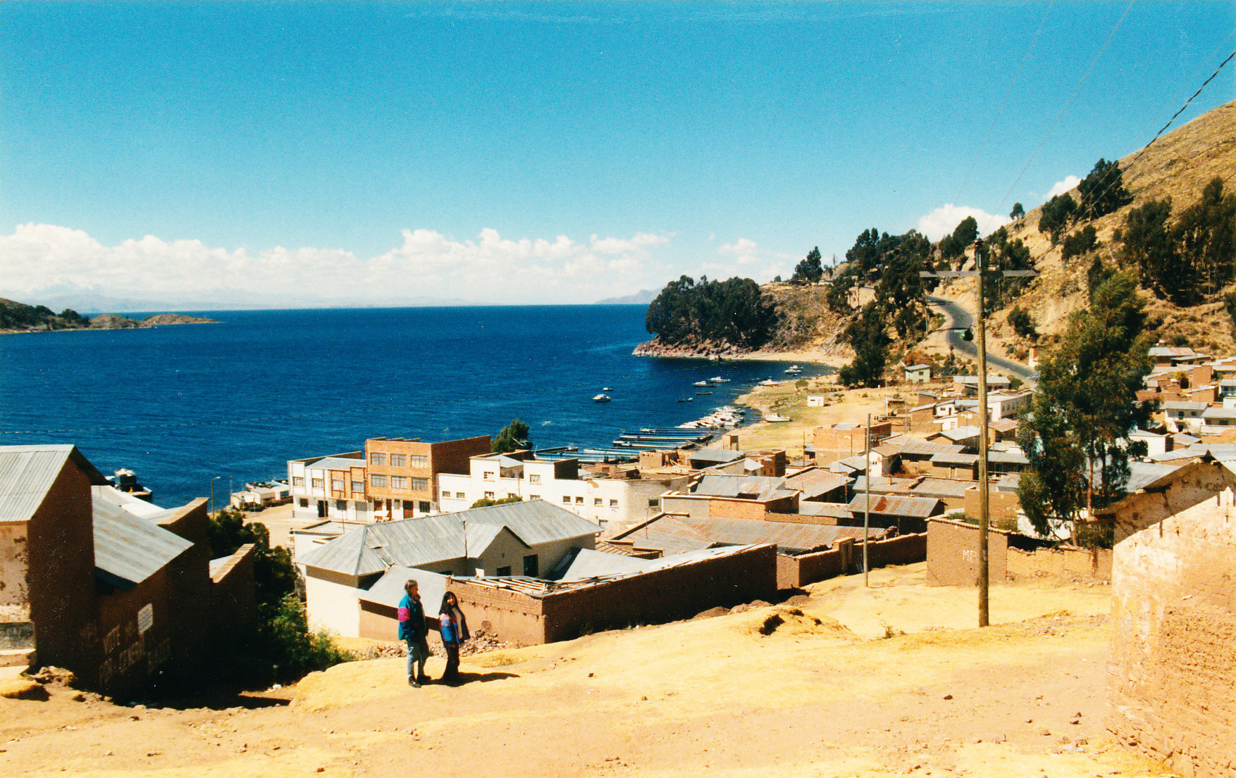 View of San Pedro de Tiquina and Lake Titicaca